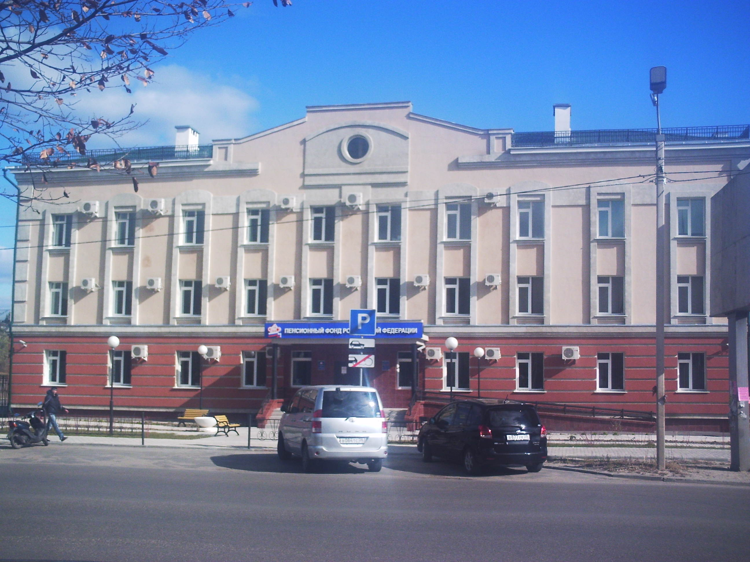 Building of Pension Fund of the Russian Federation, Svobodny, Amur Oblast